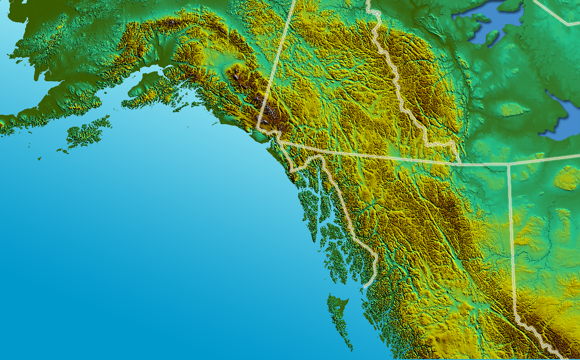 Shaded Relief map of south eastern Alaska (Alaska Panhandle), north western British Columbia and southern Yukon